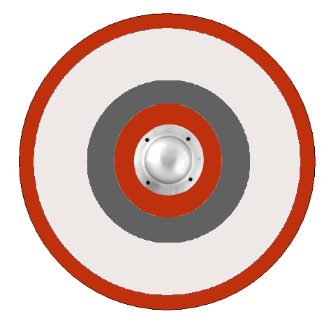 Shield pattern o.t. Celtae iuniores, listed as one of the auxilia palatina unit in the Magister Peditum's infantry roster.